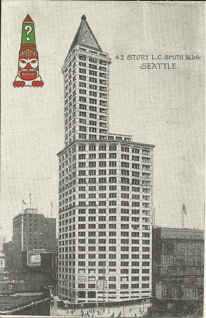 42 Story L.C. Smith Building. Golden Potlatch, Seattle, Wa. 1914